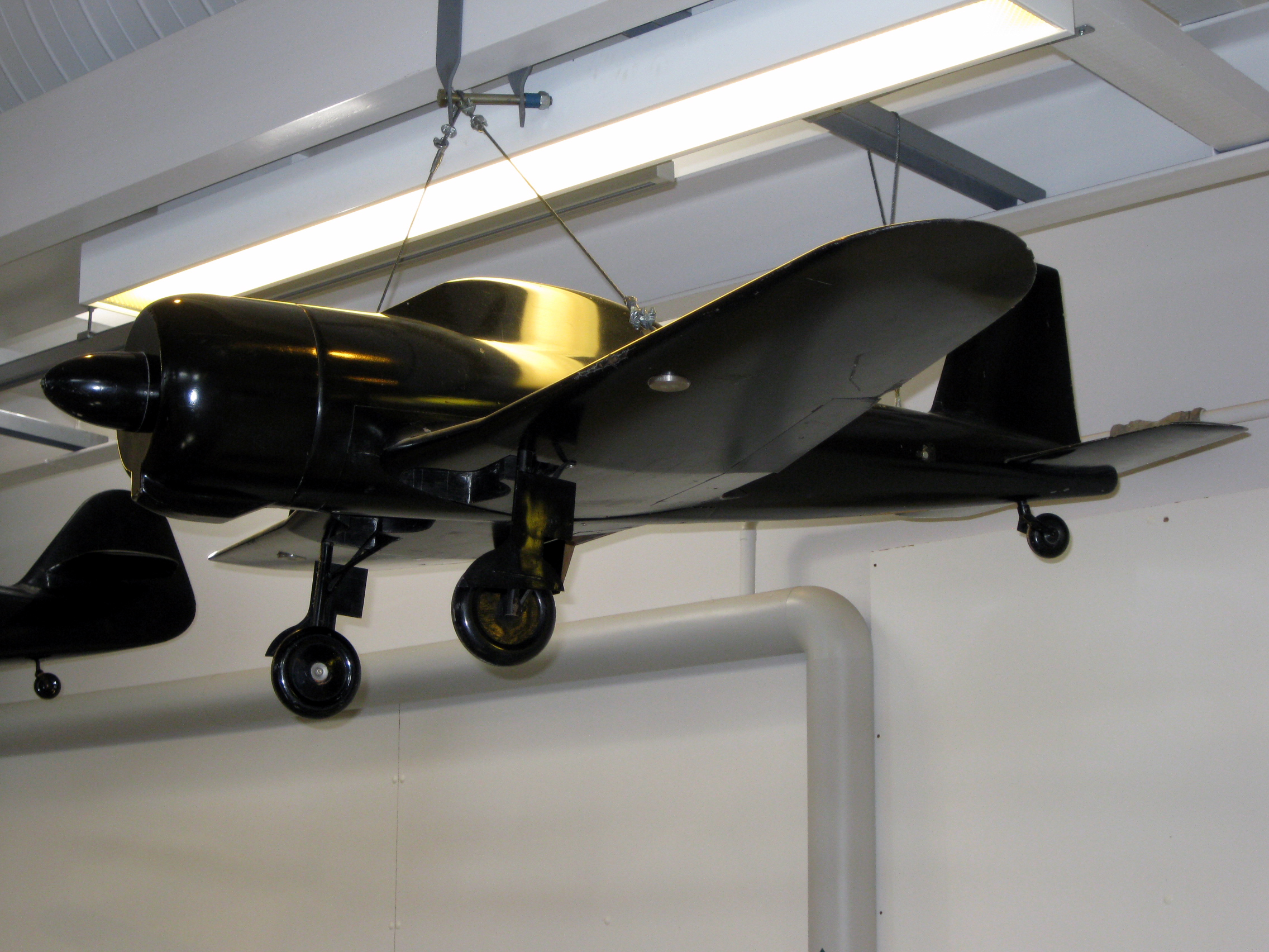 Valmet Vihuri wind tunnel model (scale 1:6) in Aviation museum of Central Finland.